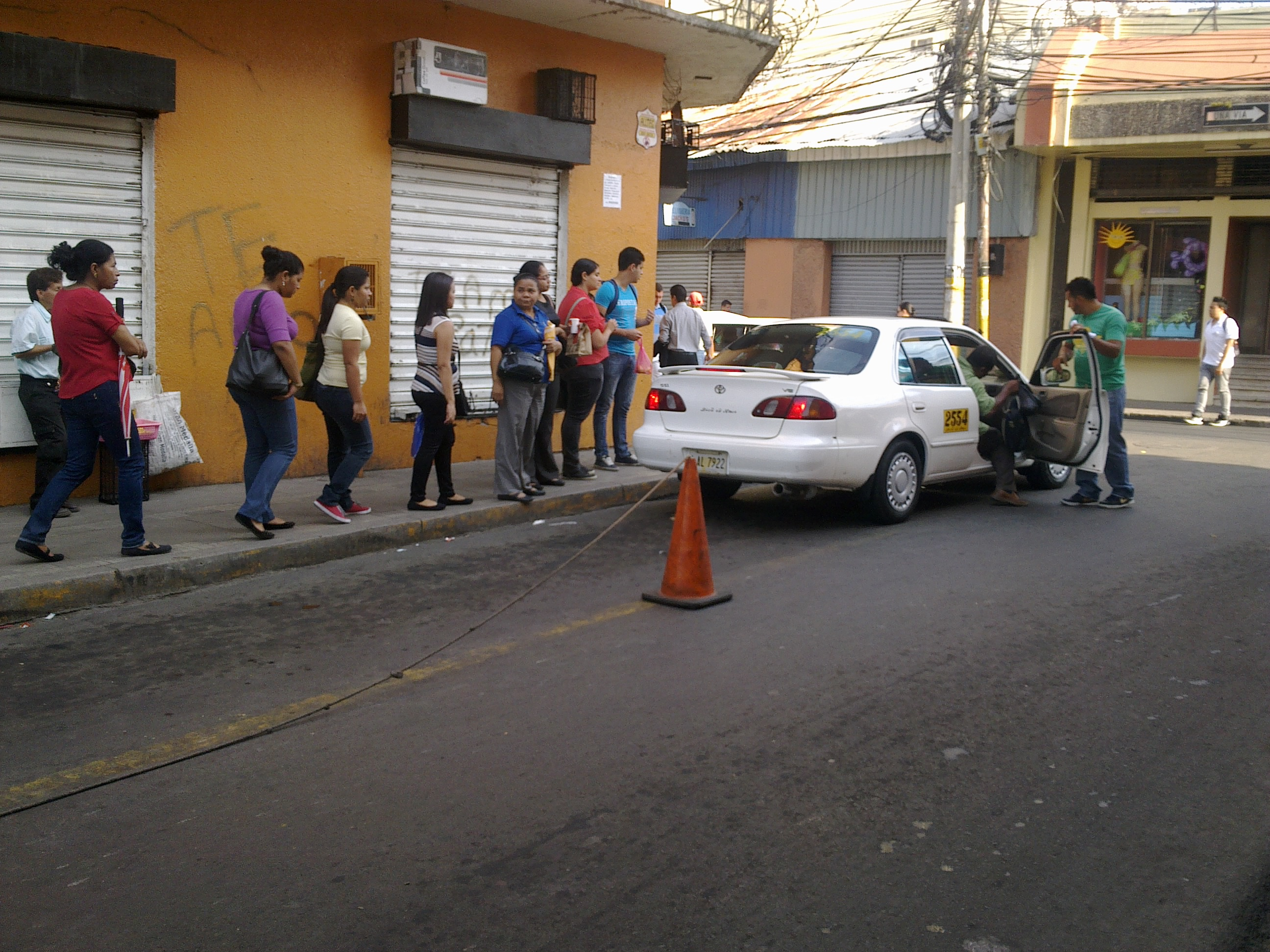 Calles del pueblo de Teguz, HN